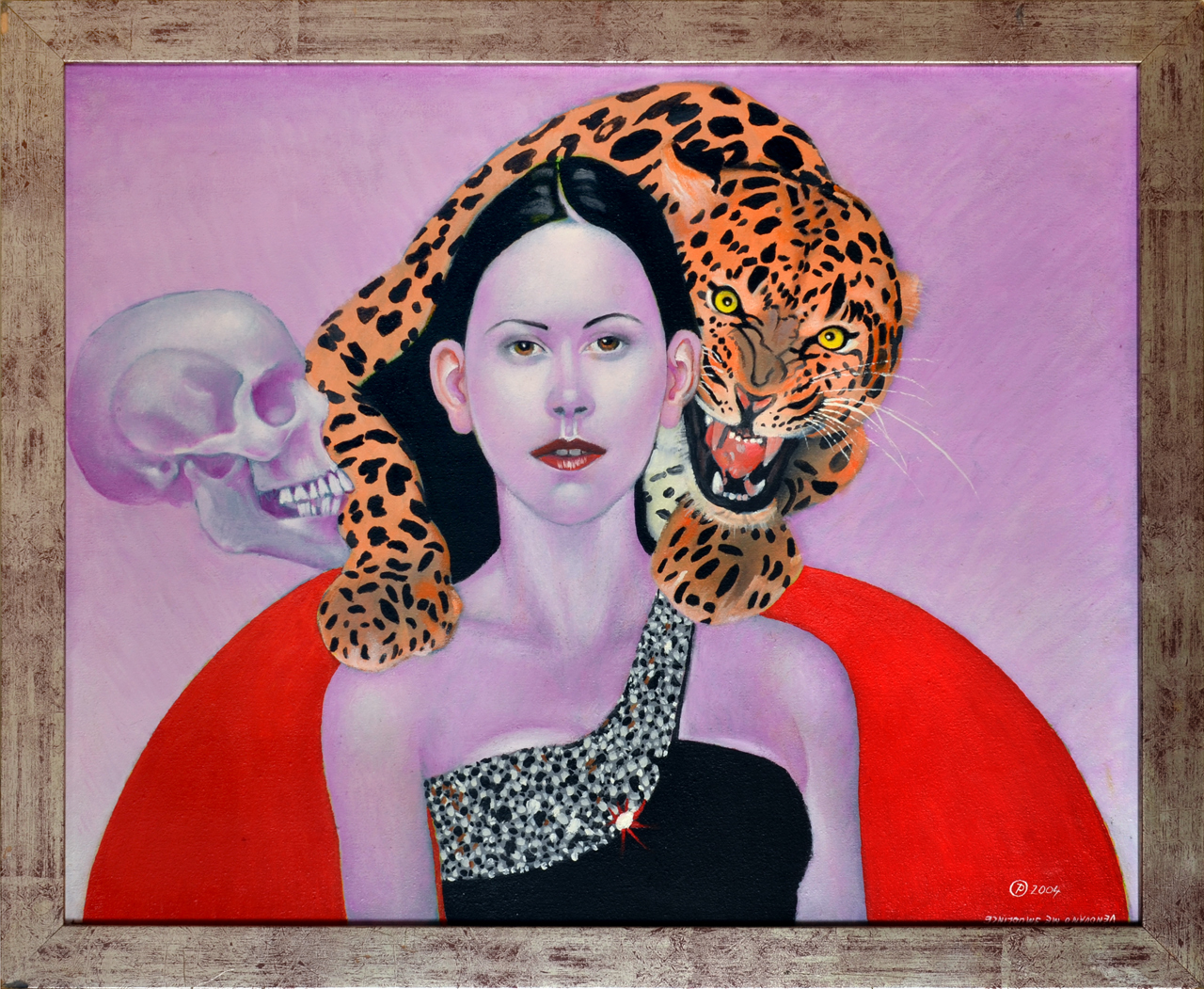 Petra Oriešková, Panther ´s Hug, oil on canvas, 2004